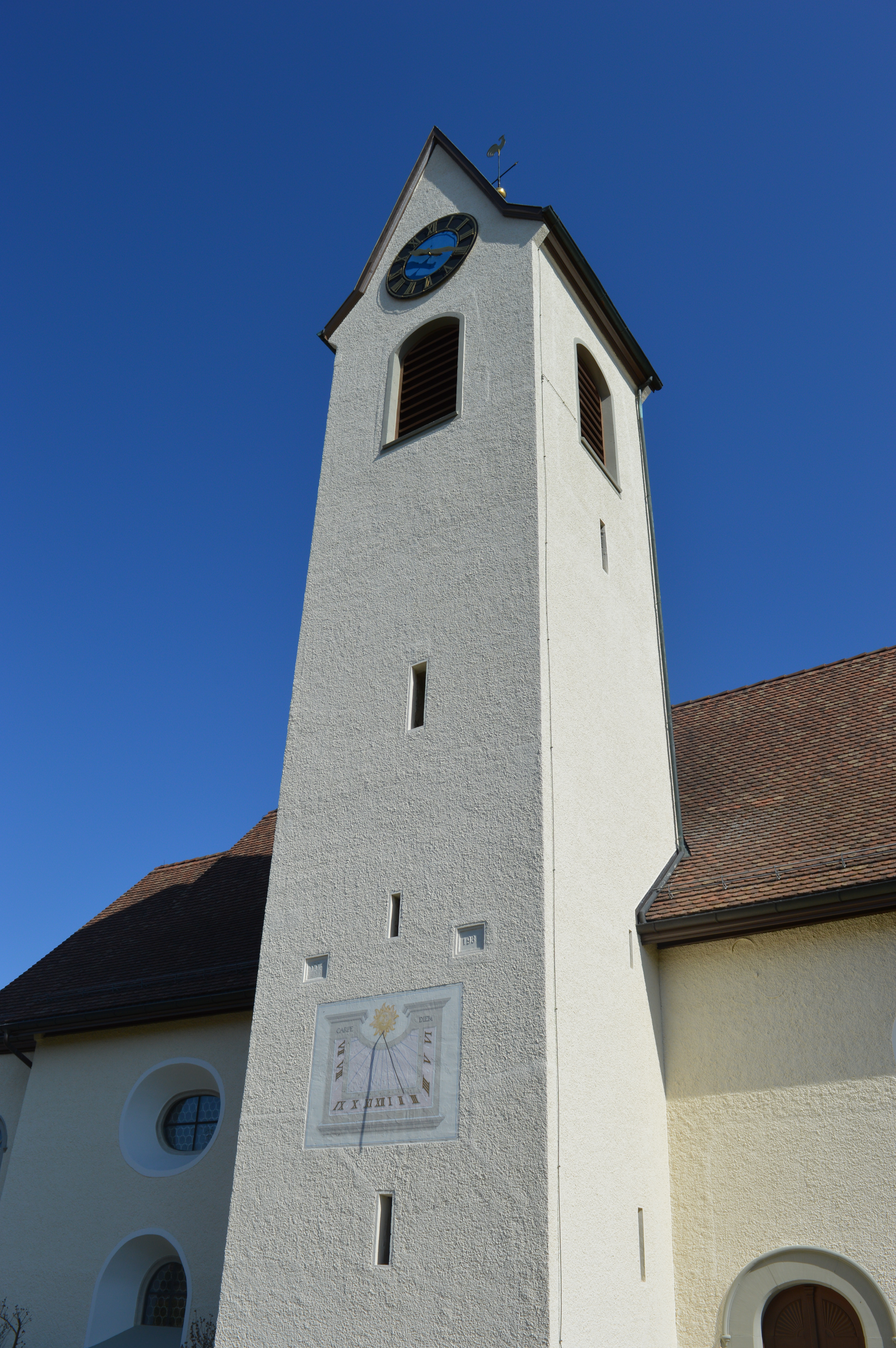 Protestant church Oberneunforn, municipality of Neunforn, canton of Thurgovia, Switzerland